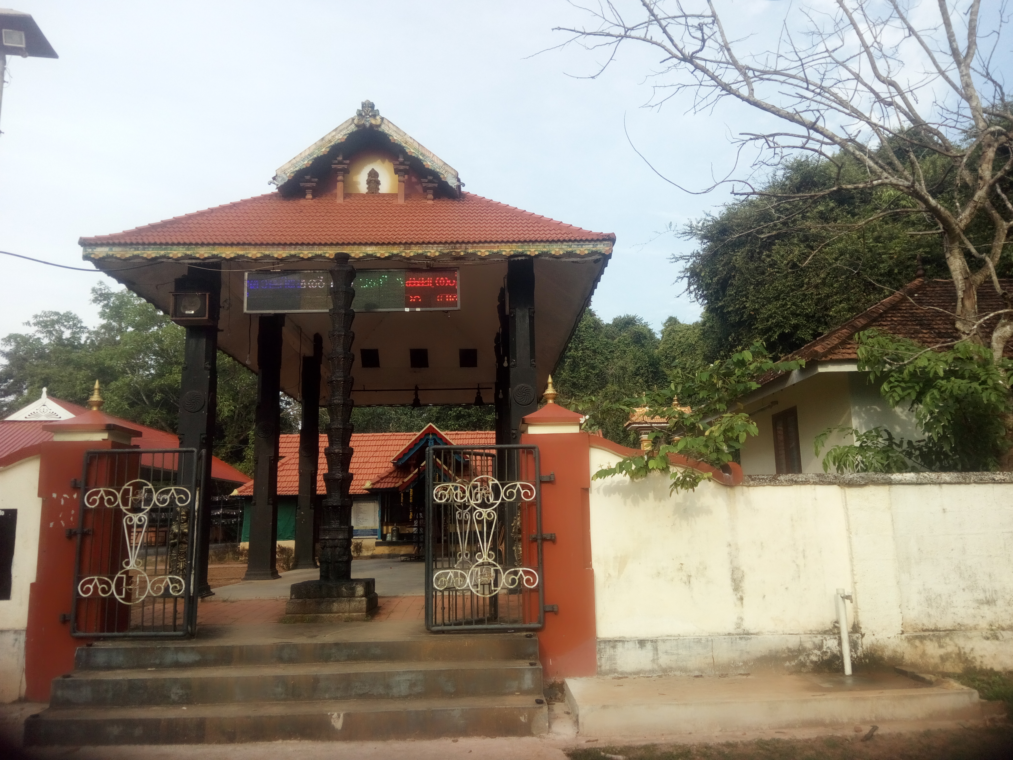 Malimel devi temple is in kurathikad,mavelikara, alappuzha district.